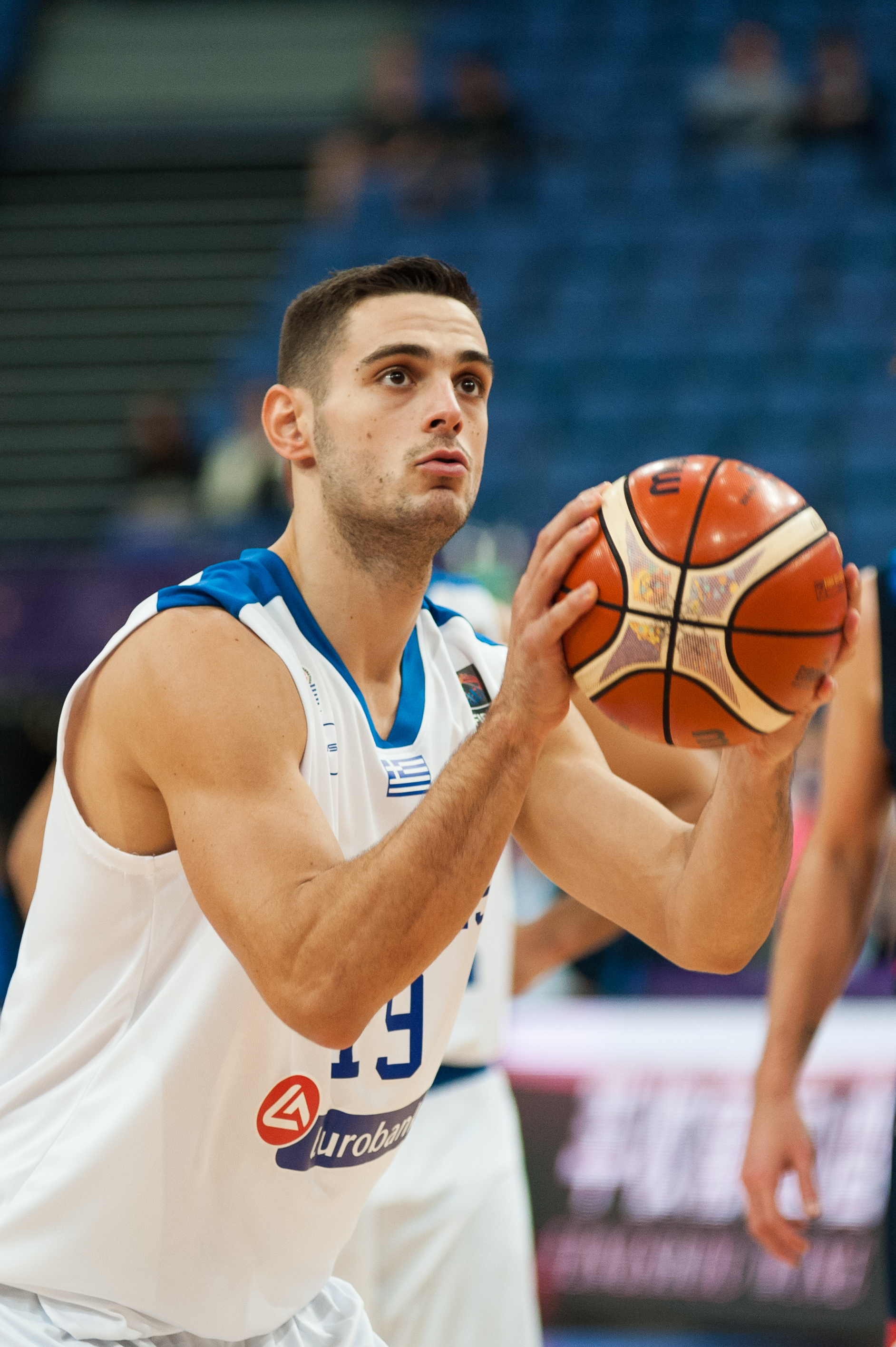 EuroBasket 2017 Group A game between Greece and France at Hartwall Arena in Helsinki, Finland.